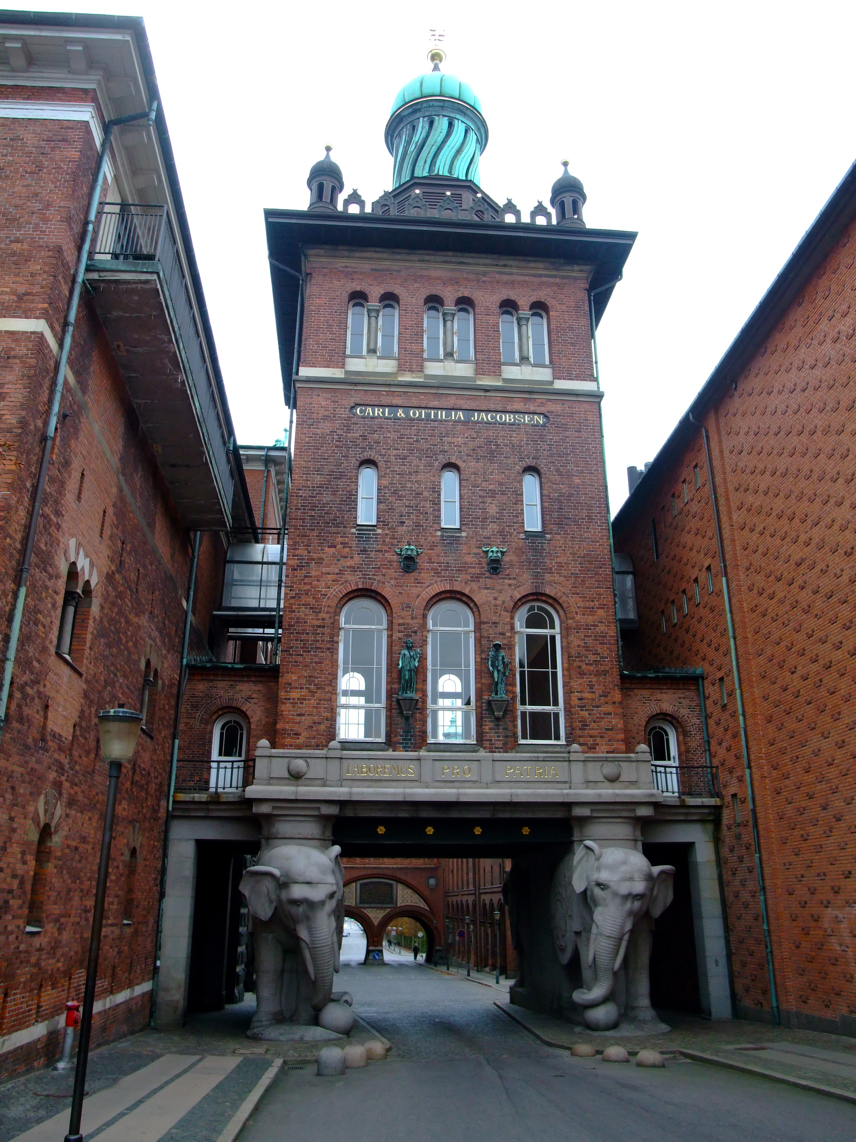 The Elephant Gate at Carlsberg in Copenhagen, Denmark, seen from the Valby (outer) side